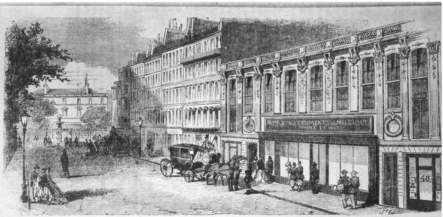 Adolphe Sax's atelier : 48-50, rue Saint-Georges in Paris